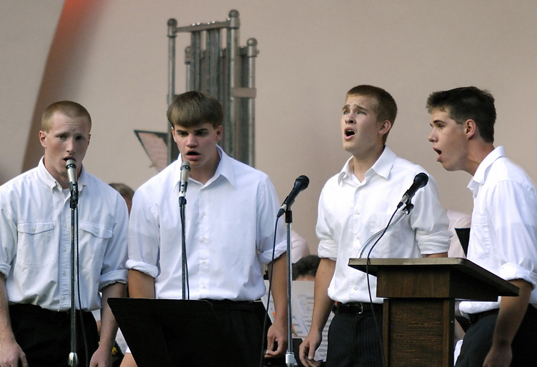 Locked-In's first performance with the Eau Claire Municipal Band, Wisconsin